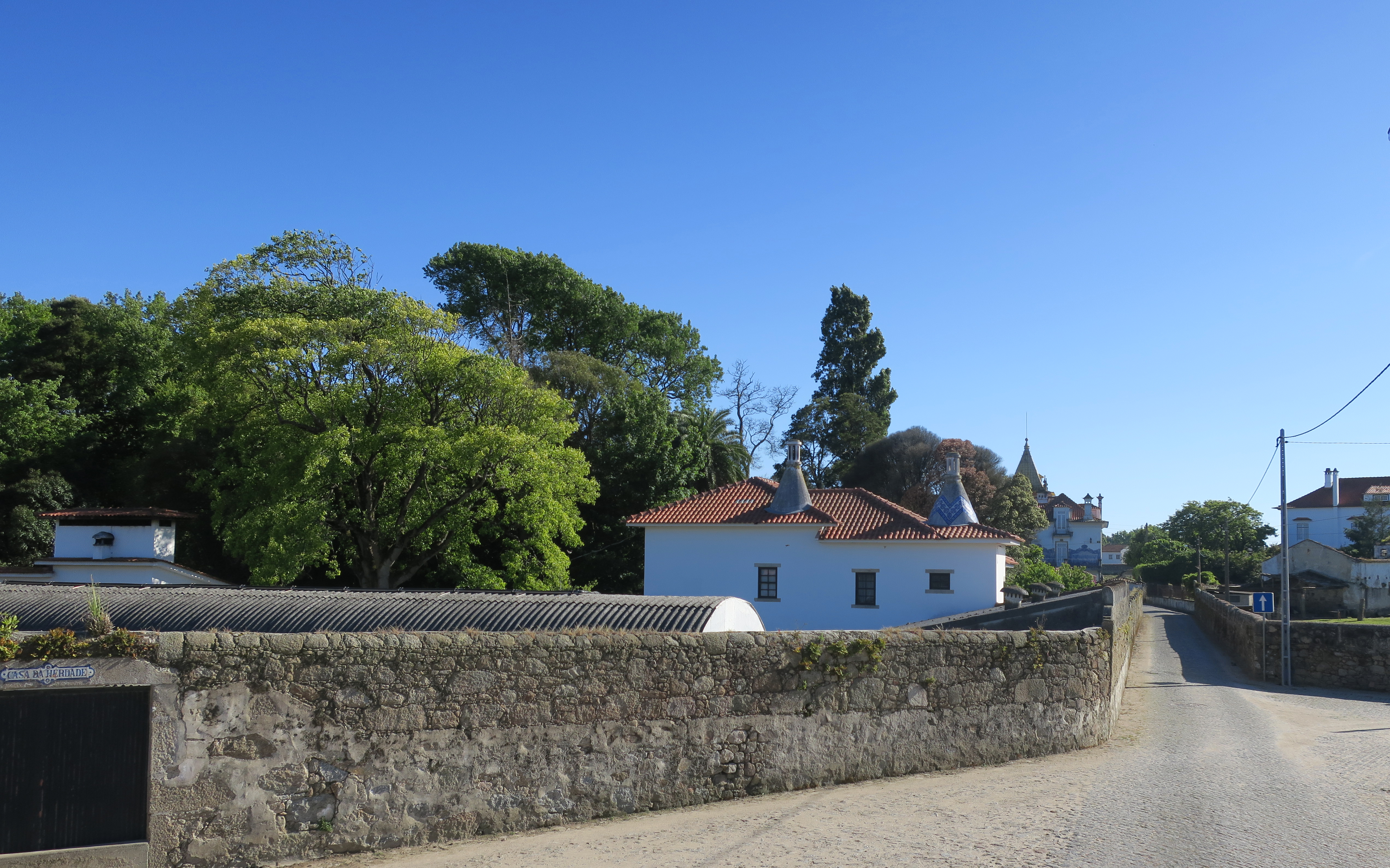 Calves hamlet, Beiriz, Póvoa de Varzim